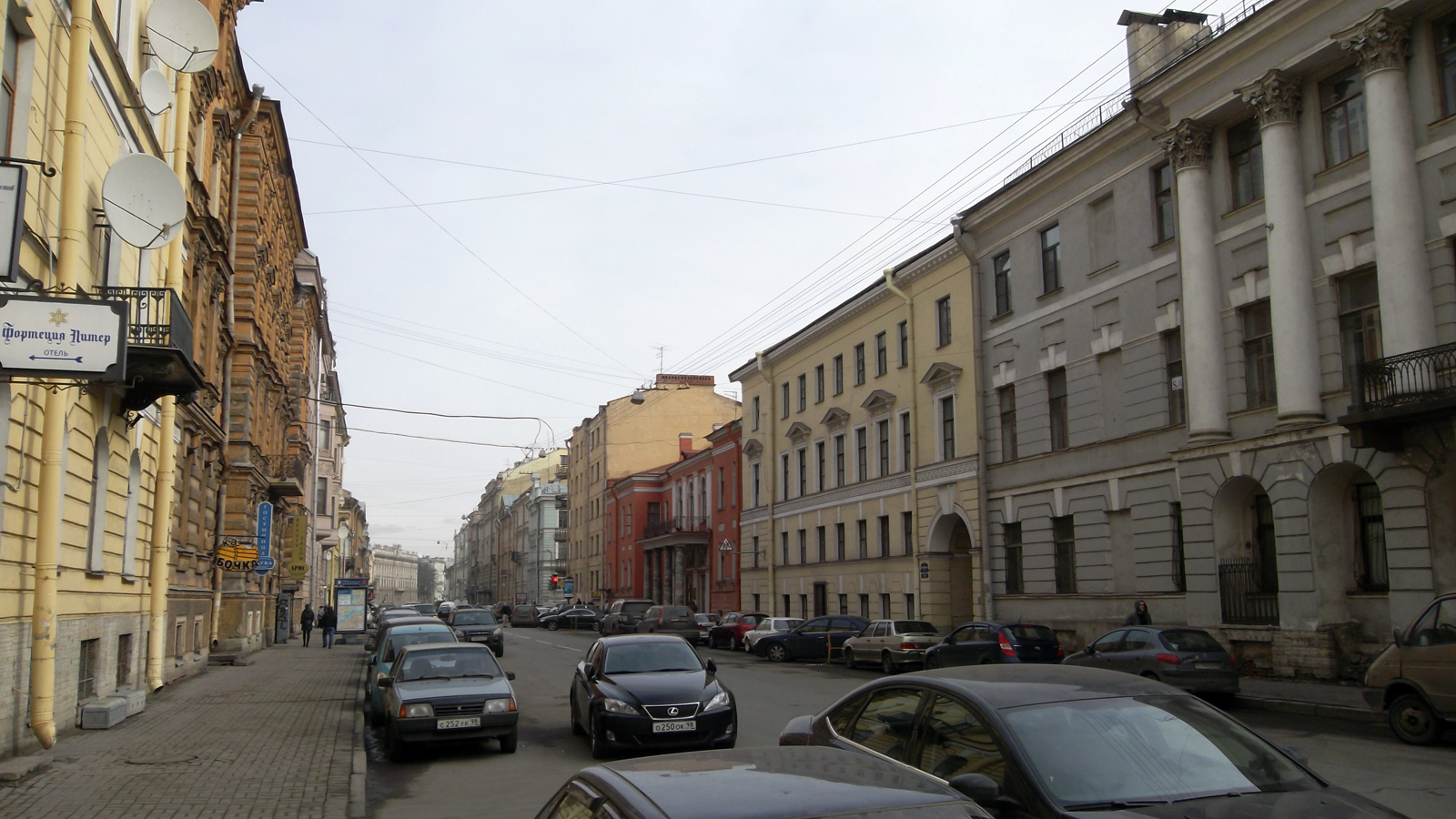 Millionnaya Street